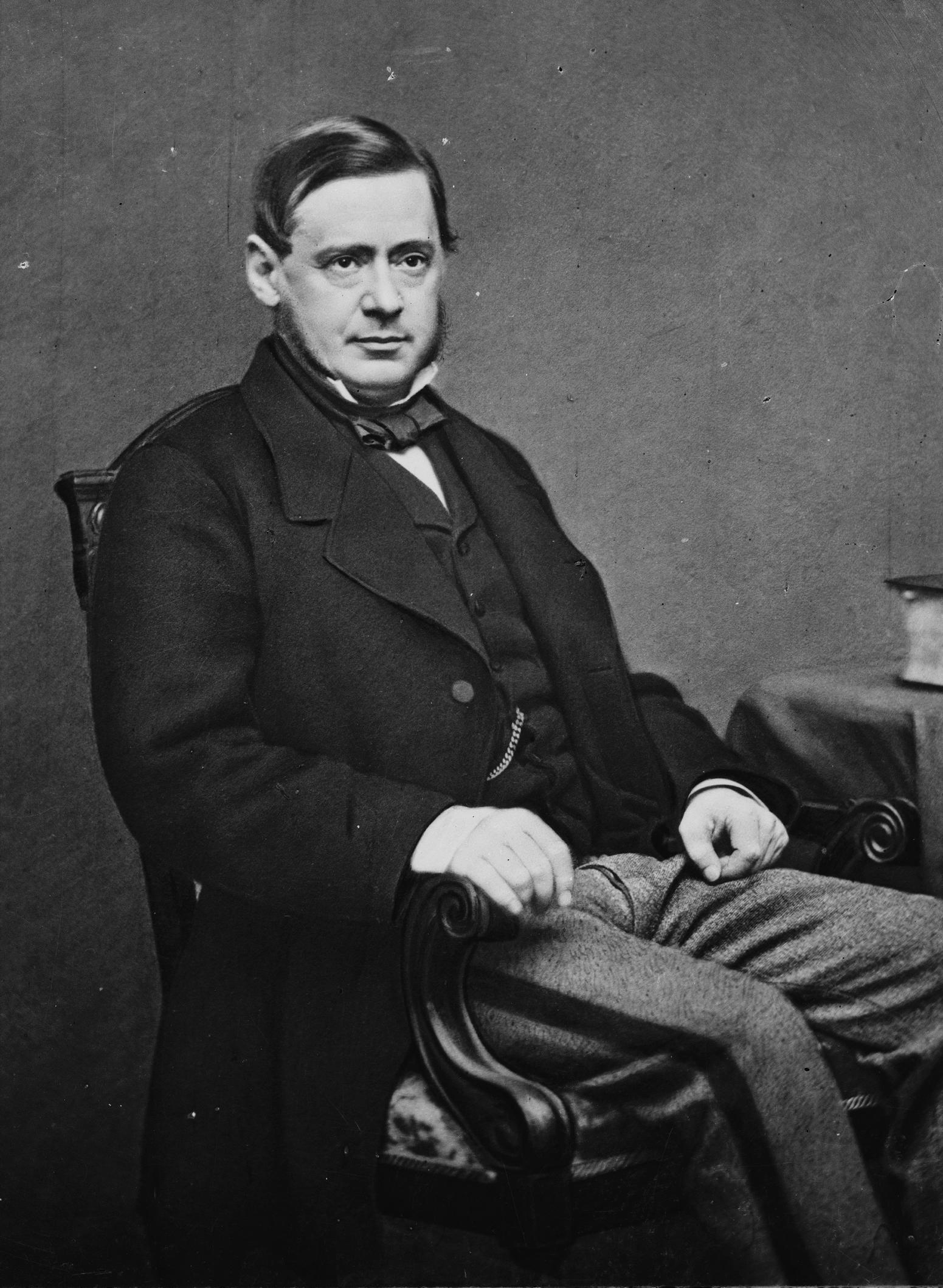 Richard Bickerton Pemell Lyons. Library of Congress description: "Pemell, Richard B., Lyons, Lord. British Minister during Civil War".